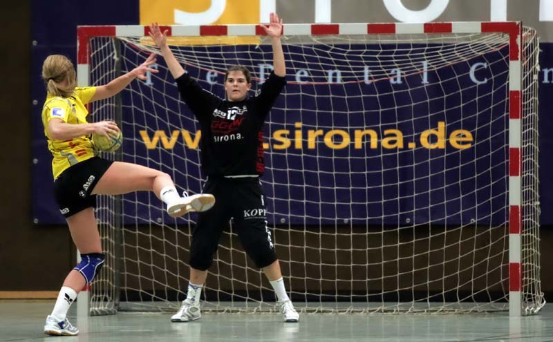 Goalkeeper Laura Glaser during a seven meter penalty shot during the handball game HSG Bensheim/Auerbach - TuS Metzingen, on January 13th, 2007 in Bensheim (Germany).